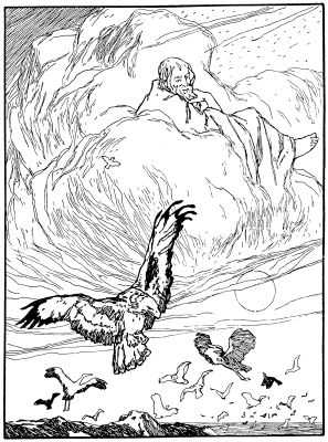 Illustration by Otto Ubbelohde to the fairy tale The Willow Wren